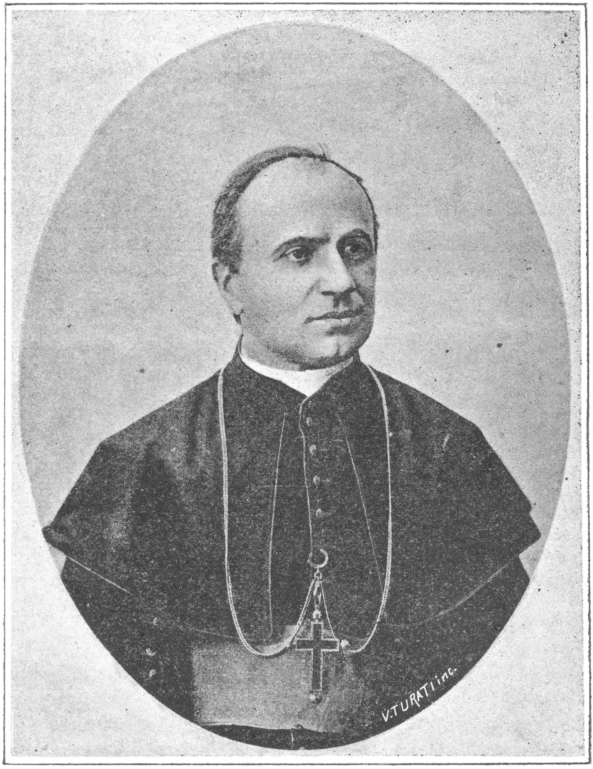 Portrait of Giuseppe Marello (1844-1895), bishop of Acqui.